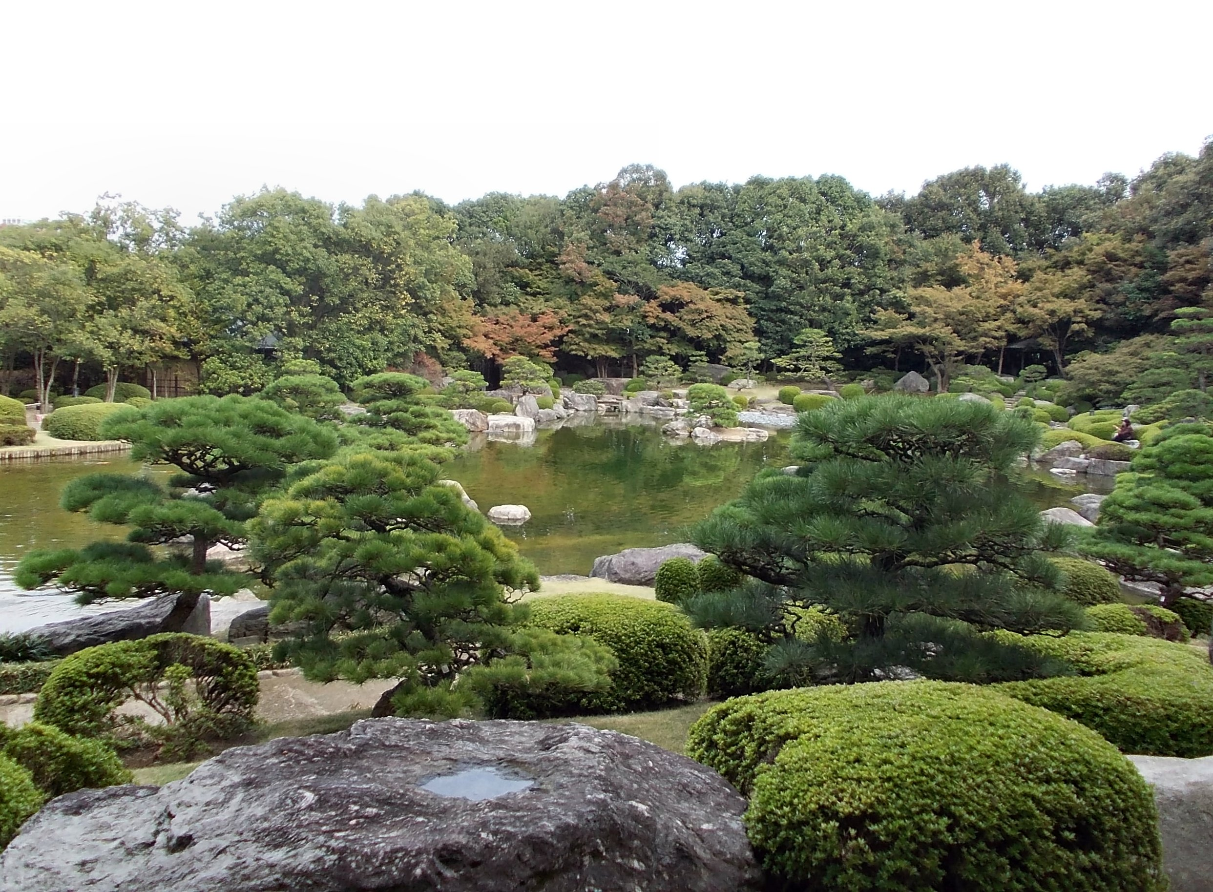 A Japanese garden in Ohori Park, Chuo-ku, Fukuoka, Japan